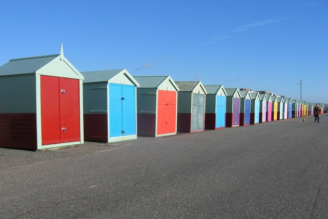 Beach Huts, Hove Seafront Near Hove Lagoon, these colourful beach huts stretch along the promenade eastwards.